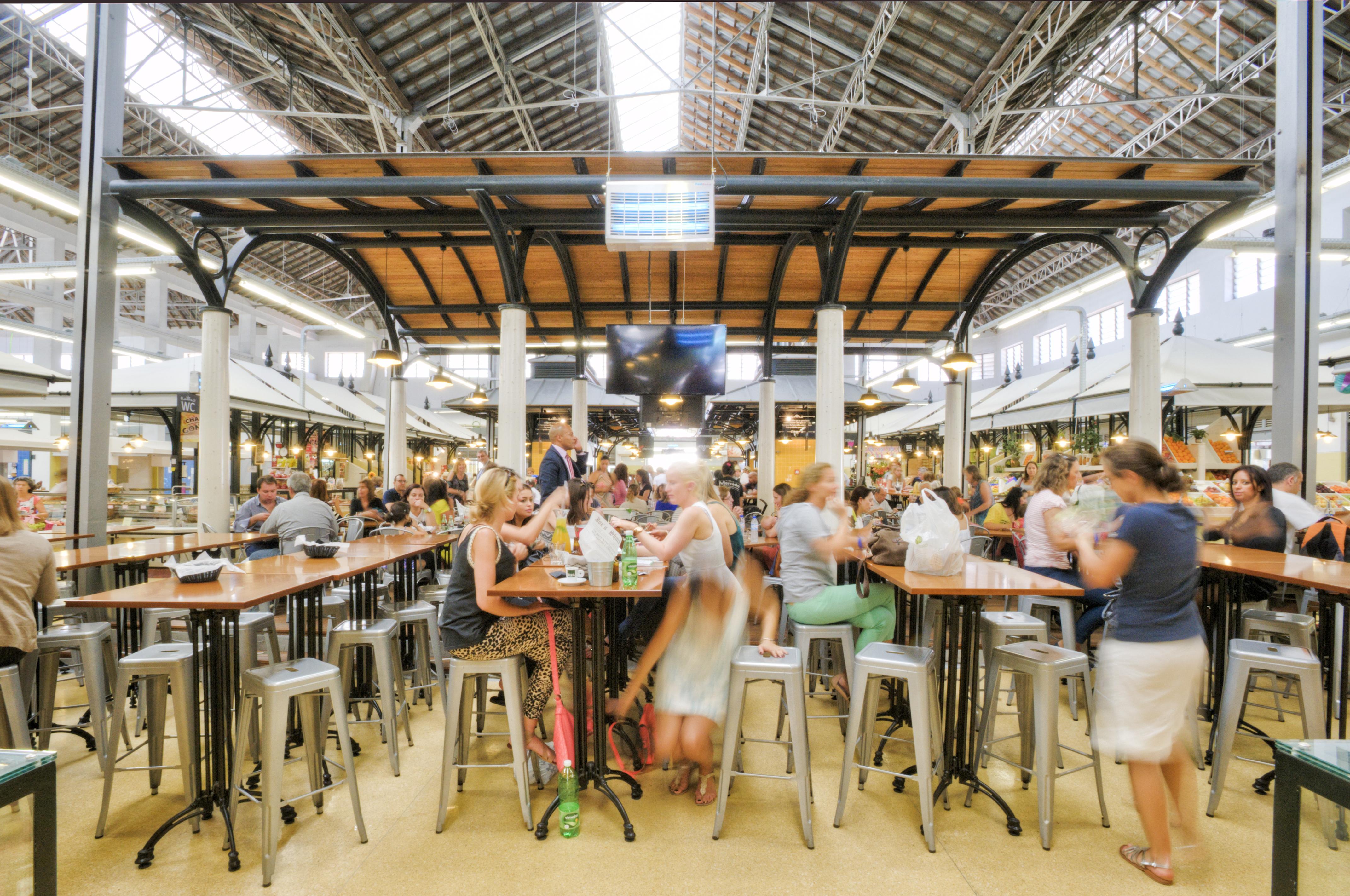 A normal day at the market!